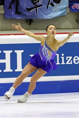 Junior World Championships 2015 (Wakaba HIGUCHI JPN – Bronze Medal)